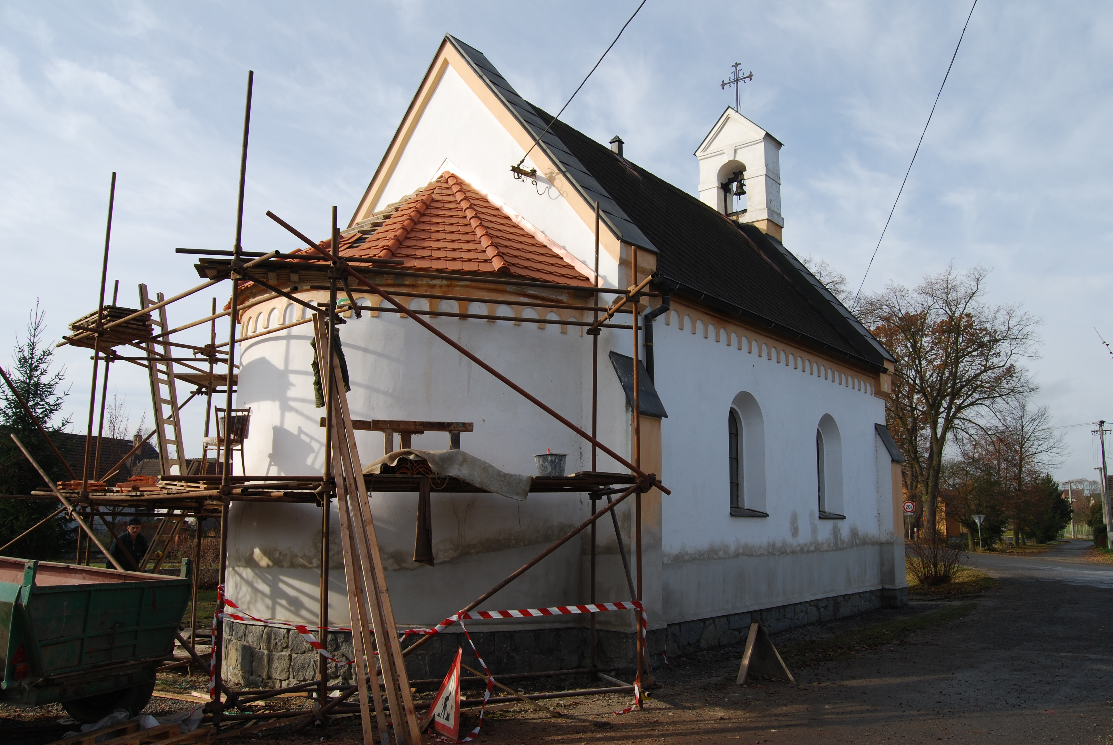 Hudčice village in Příbram District, Czech Republic. Chapel